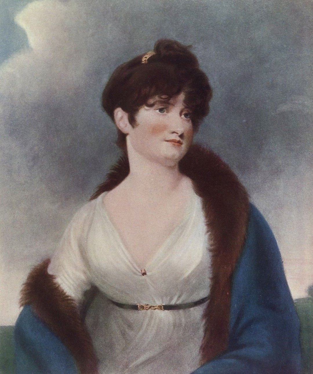 Rosomon Wilkinson aka Mrs Rosomon Mountain by C Turner after John James Masquerier (who died in 1855)